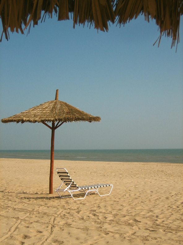 After being relatively land-locked for the last 2 years I am always exhilarated to be by the sea again. This amazingly long beach is privately owned by the Vijay Vilas Palace and they have a small tent hotel and great restaurant down here. Damn fine prawns if you are in the area! :-)